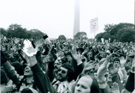 This is the top left photo of File:Washington for Jesus 1980.jpg uploaded by